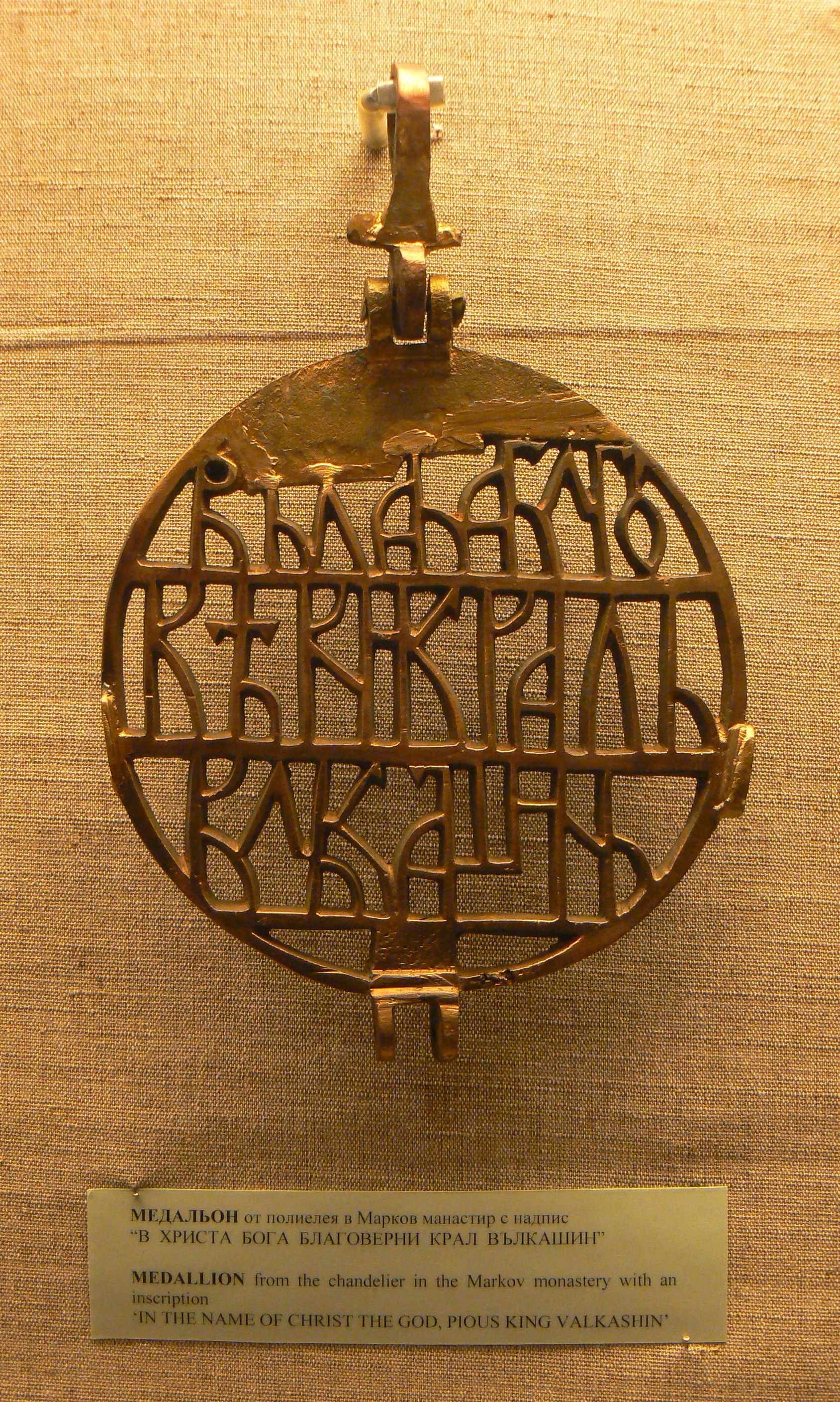 Bronze element from the chandelier, donated by King Valkashin to the Church "Saint Demetrius" in the Markov Monastery, Macedonia (1365-1371). Exhibit of the National History Museum of Bulgaria